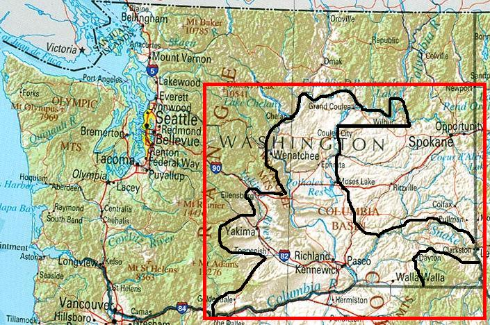 Modified map used to show the Columbia Valley AVA within Washington State. Original public domain image located at Perry-CastaÃ±eda Library Map Collection provided by U.S. Geological Survey 2001, printed 2002 Modified copied similarly released to public domain.